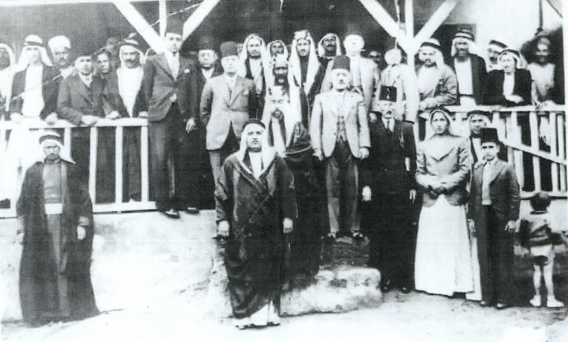 SAIF EDDIN ABUKISHK AND KING PRINCE ABDALLAH( LATER KING OF JORDAN)